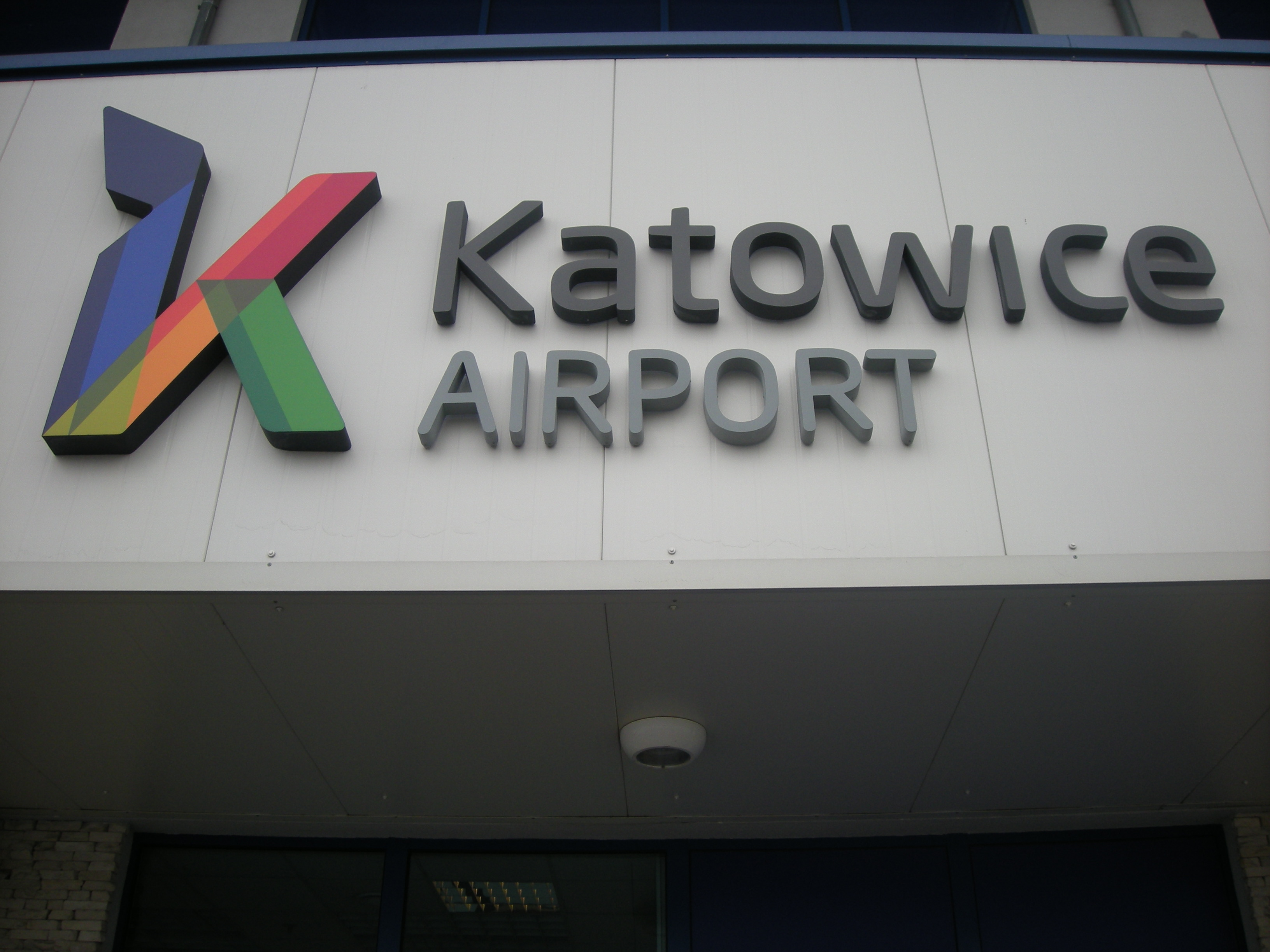 Logo of KTW intl airport on the terminal.